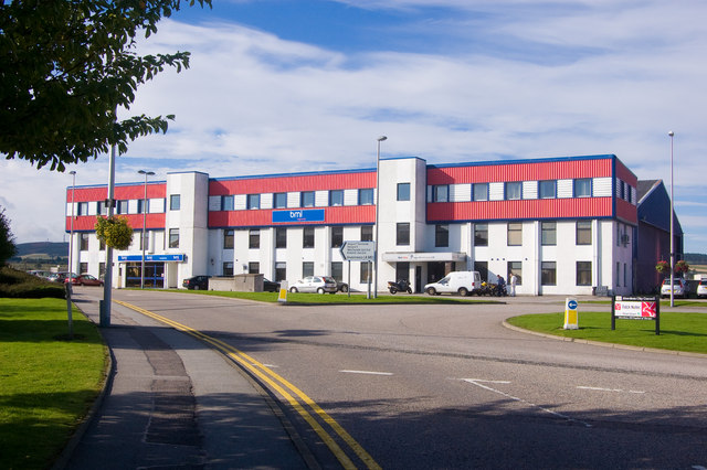 bmi (British Midland) offices, including the head office of BMI Regional. Aberdeen Airport East Wellheads Drive Dyce Aberdeen AB21 7EU.This gridsquare is bisected by the Aberdeen to Inverness railway line, which runs roughly north-south. On the east side is the historic centre of Dyce village; on the west side are mostly commercial and industrial buildings, many of which are associated with Aberdeen Airport. Here we see the bmi (British Midland Airlines) office block. Visible on the mid-right hand side is a roundabout sponsorship sign.